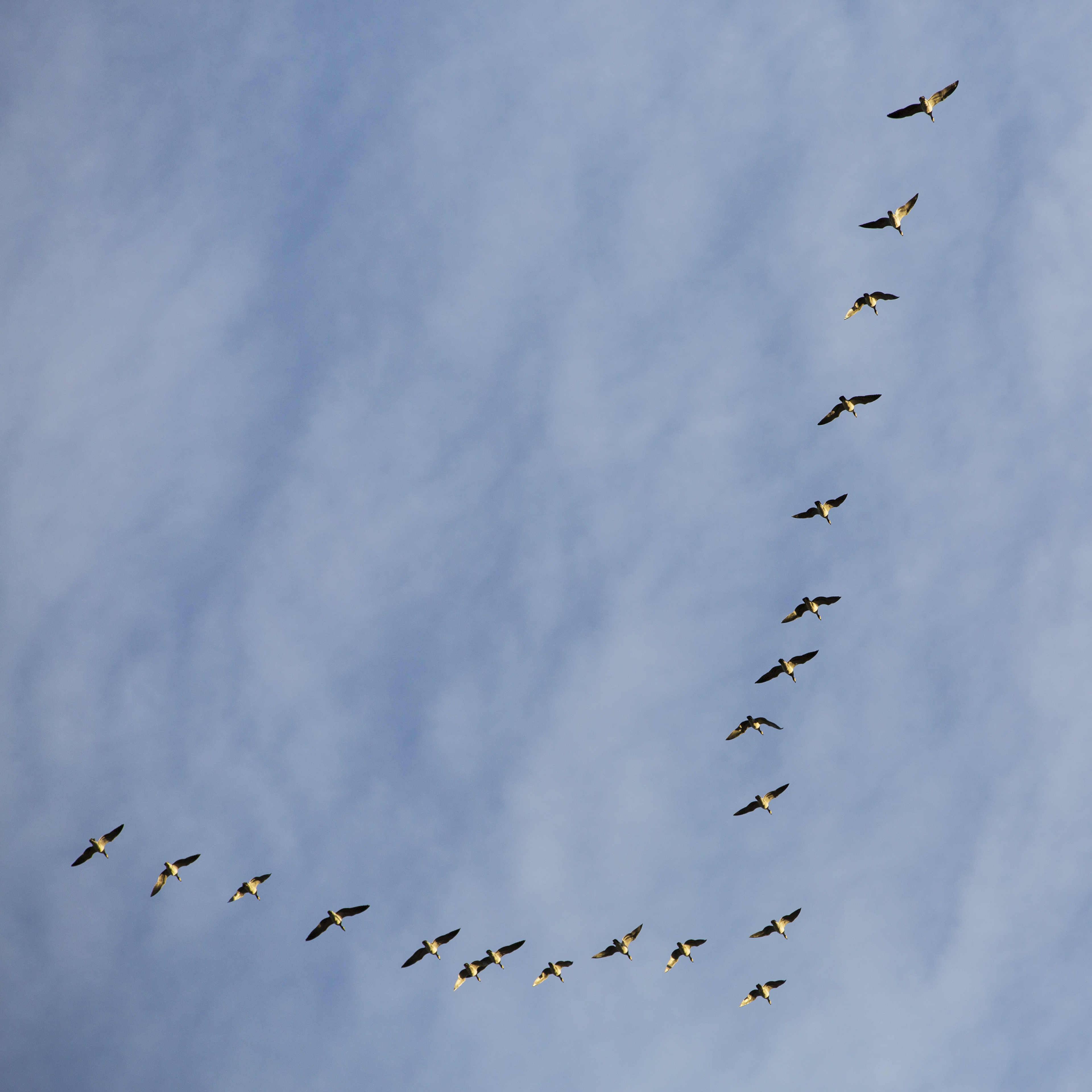 Geese fly to the South